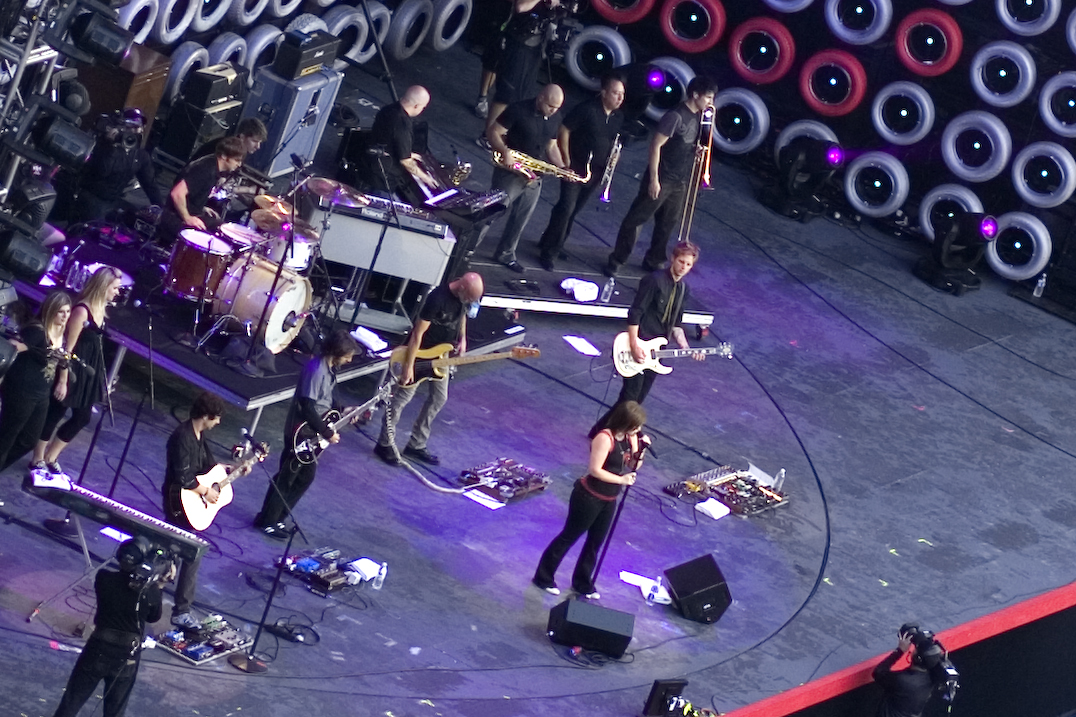 Kelly Clarkson and her backing band perform at Live Earth in East Rutherford, New Jersey.